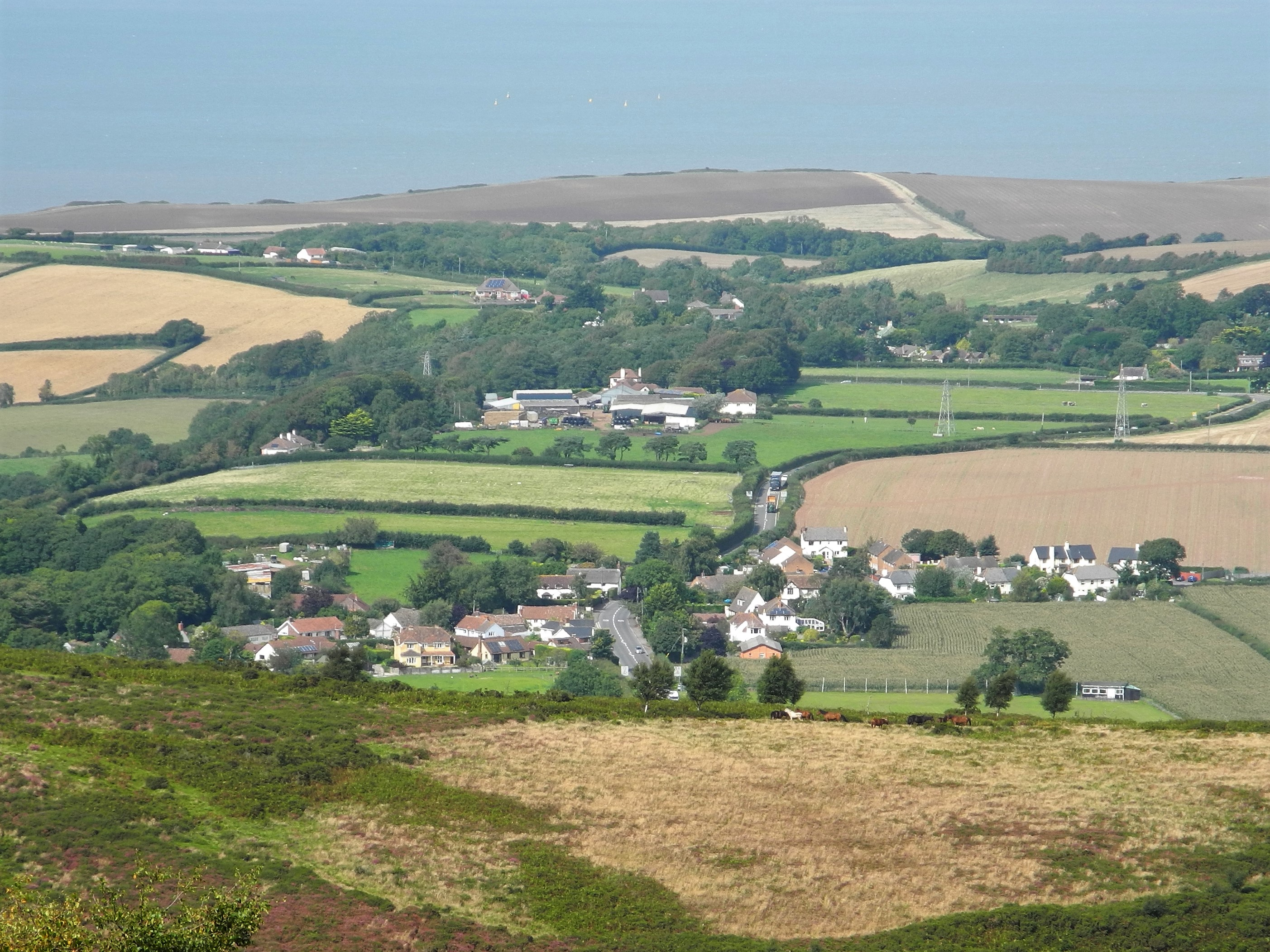 The view north from the summit of Dowsborough, the site of an Iron Age fort in west Somerset, England.